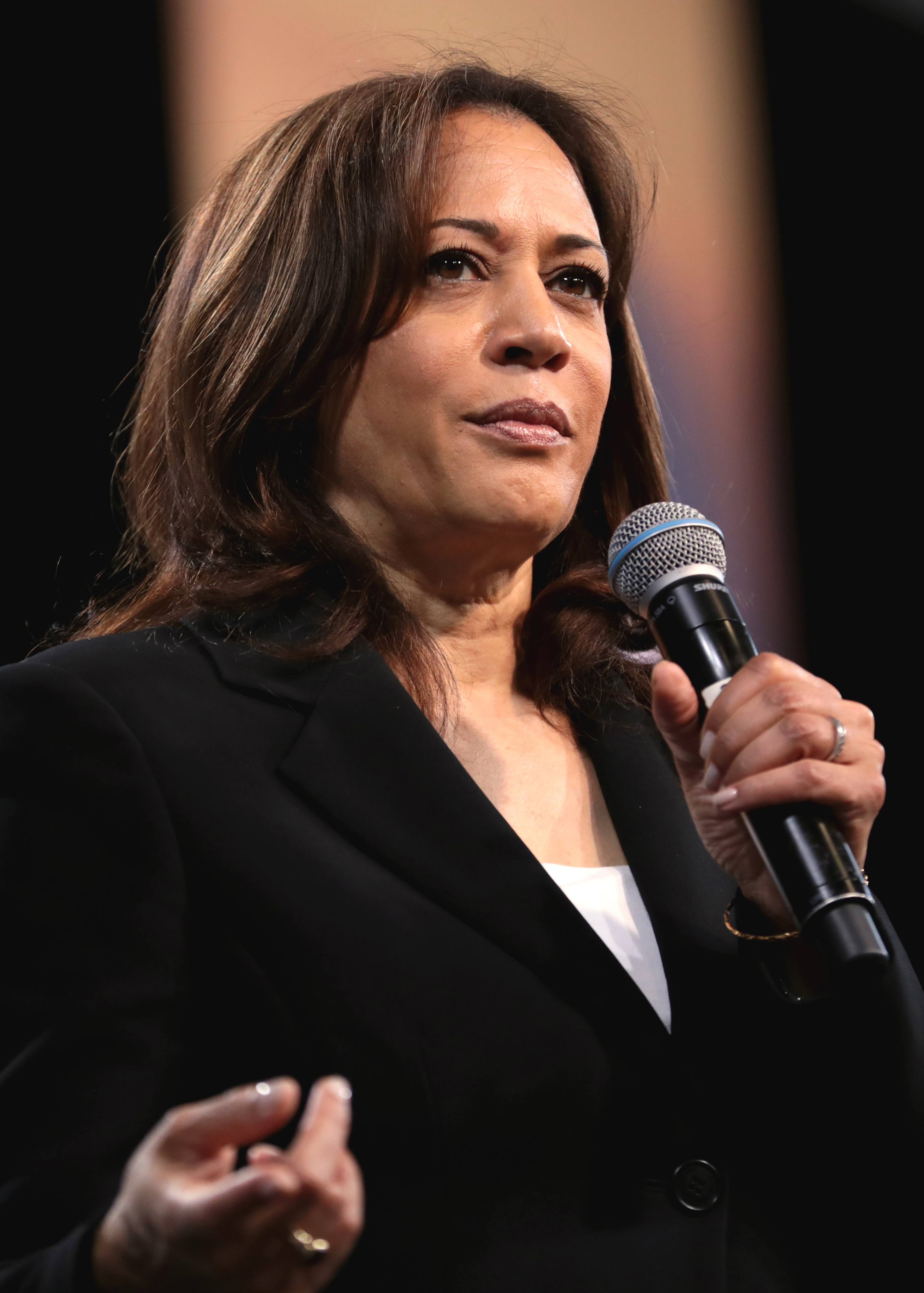 Kamala Harris speaking at an event in Las Vegas, Nevada.